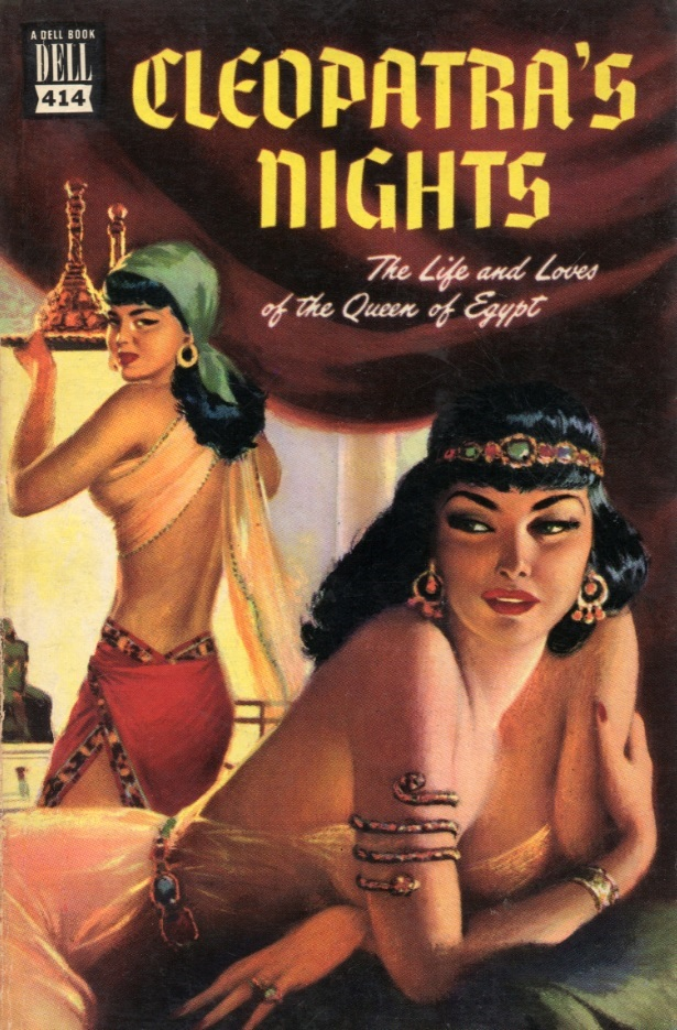 Cover of "Cleopatra's Nights" by Allan Barnard. Illustration by Ray Johnson.